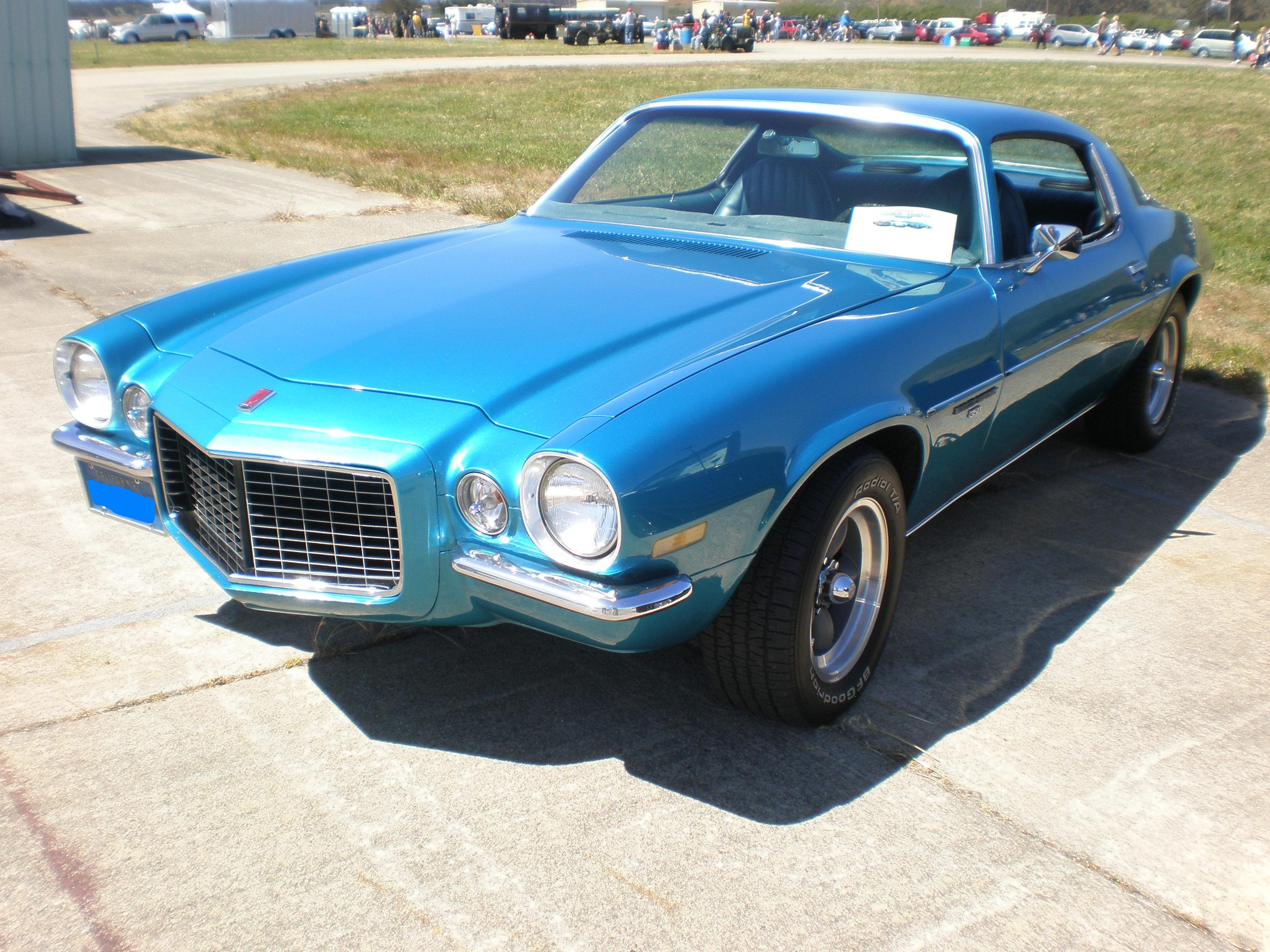 A 1972 Chevrolet Camaro Turbo 350 at the Pacific Coast Dream Machines vehicle show at the Half Moon Bay Airport in Half Moon Bay, California.